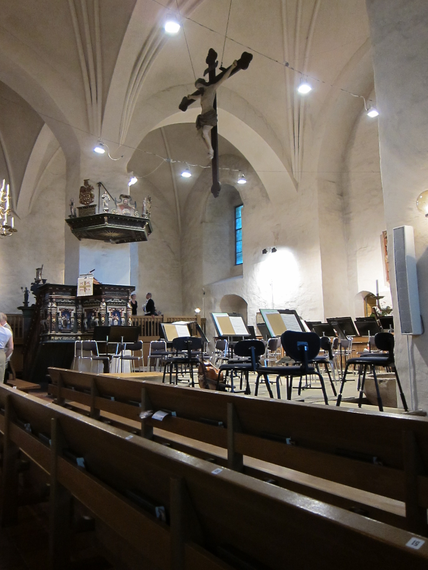 The Lahti Symphony Orchestra with conductor Okko Kamu and violinist Elina Vähälä performing at the Naantali Music Festival in Naantali Church, Naantali, Finland. Programme: Aulis Sallinen: Mauermusik Jean Sibelius: Violin Concerto in D minor, Op. 47 Johannes Brahms: Symphony No 2